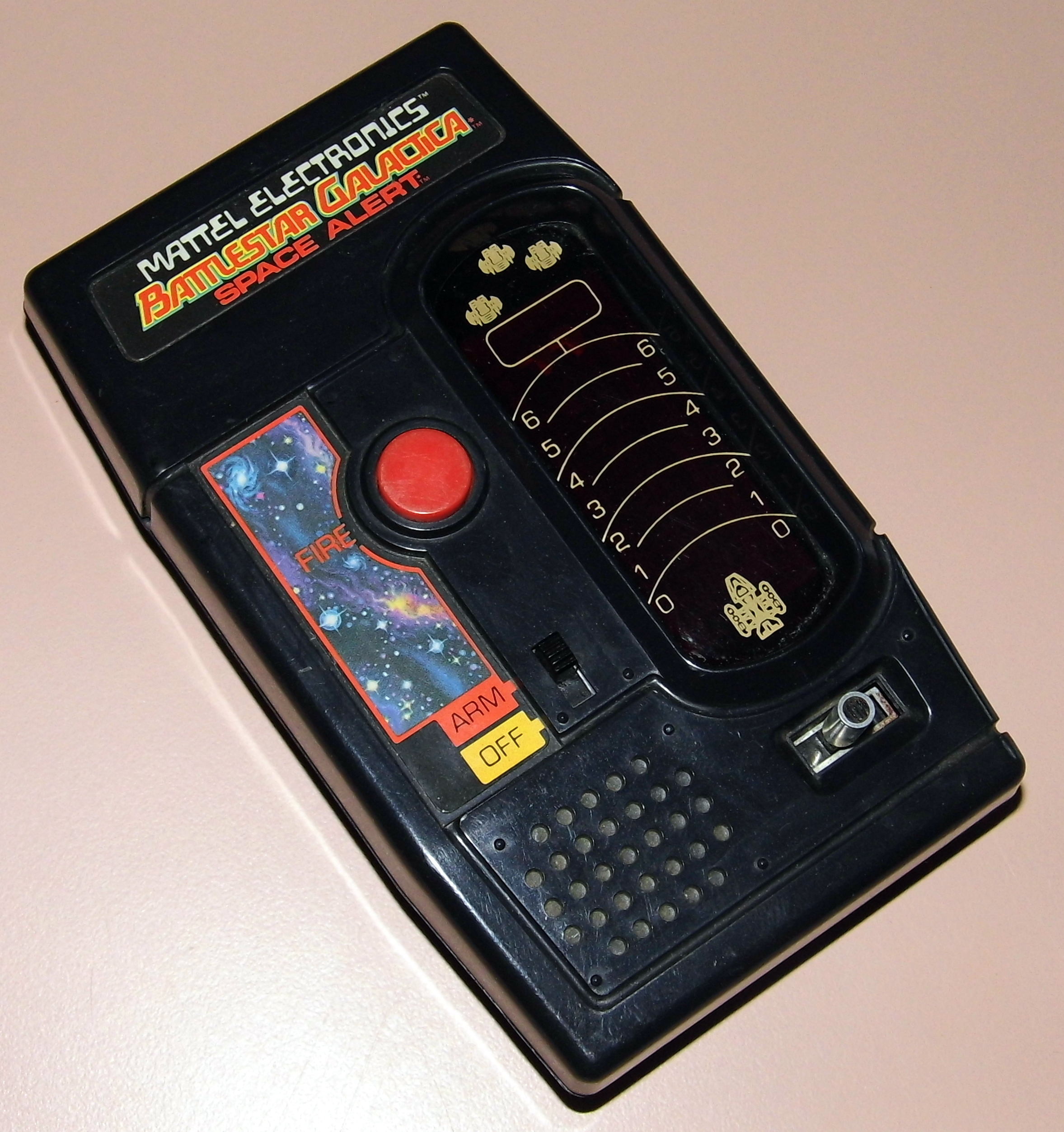 Vintage Battlestar Galactica Electronic Handheld Game By Mattel Electronics, No. 2448-0310, LED, Made In Hong Kong, Copyright 1978 from Flickr album "[ Vintage Handheld and Other Electronic Games ]" by Joe Haupt "A good source of information on vintage handheld electronic games is the Electronic Handheld Game Museum ."